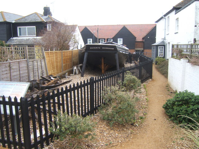 "Favourite" - Whitstable's last oyster yawl Favourite is the last of the traditional wooden Oyster Yawls remaining in Whitstable and the only yawl in public ownership. For more information